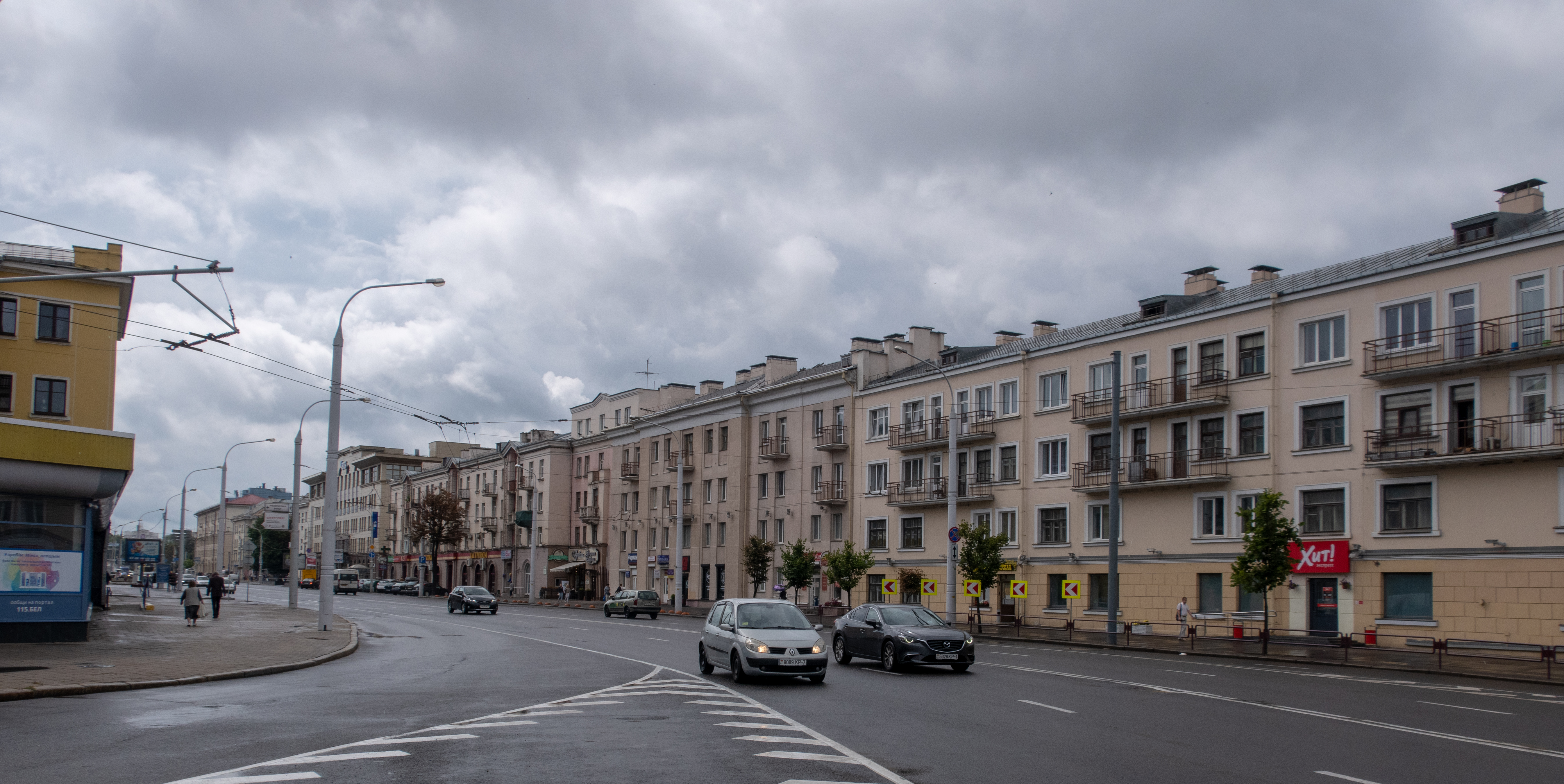 Maskoŭskaja street (Minsk, Belarus)